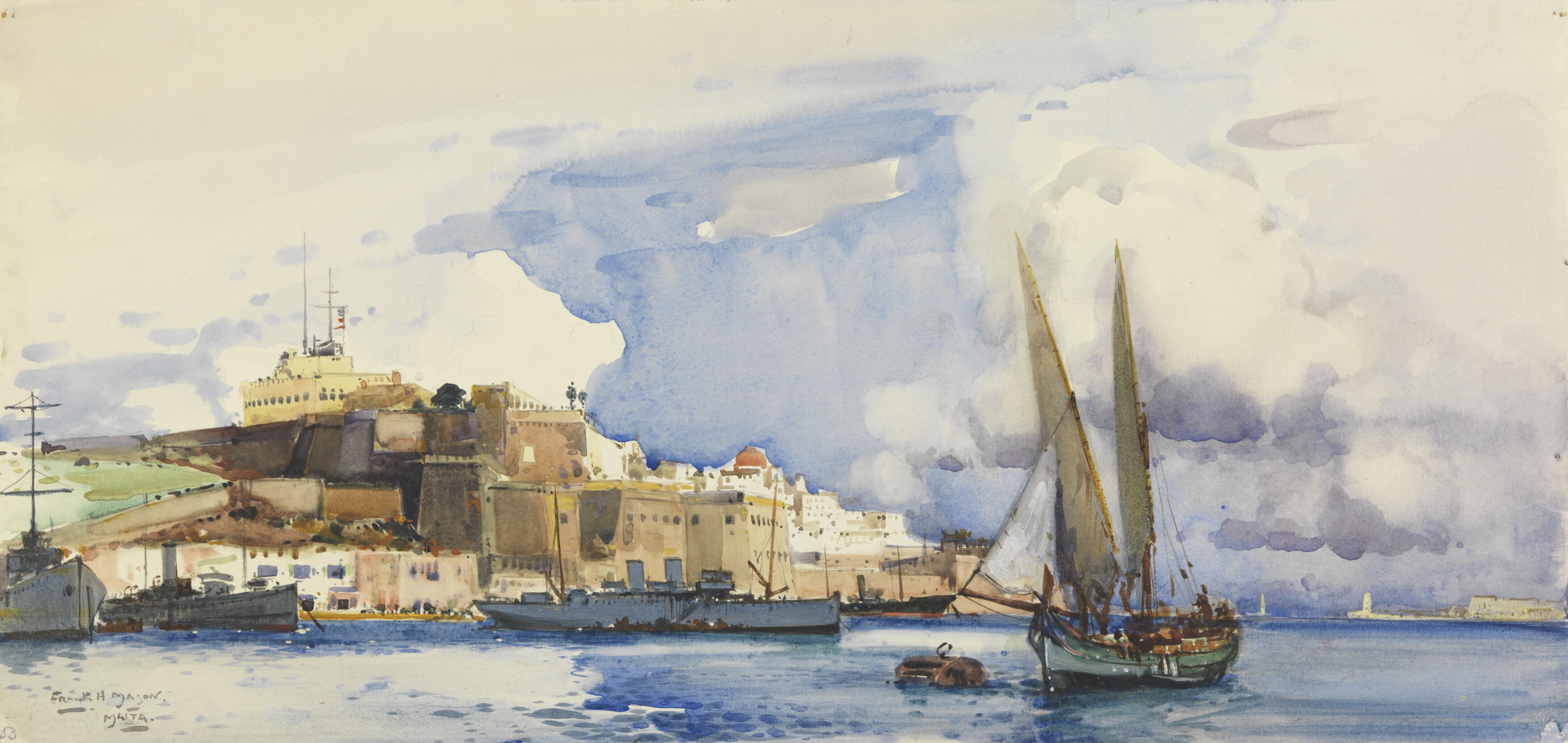 The Fleet Messenger 'isonzo' at Malta - off the Castile (signal Station) image: in the centre a starboard beam view of a small warship, anchored in a harbour below fortified buildings topped by a masted signal station. In the right foreground is a local sailing boat, and two other naval vessels are to the left of the composition.